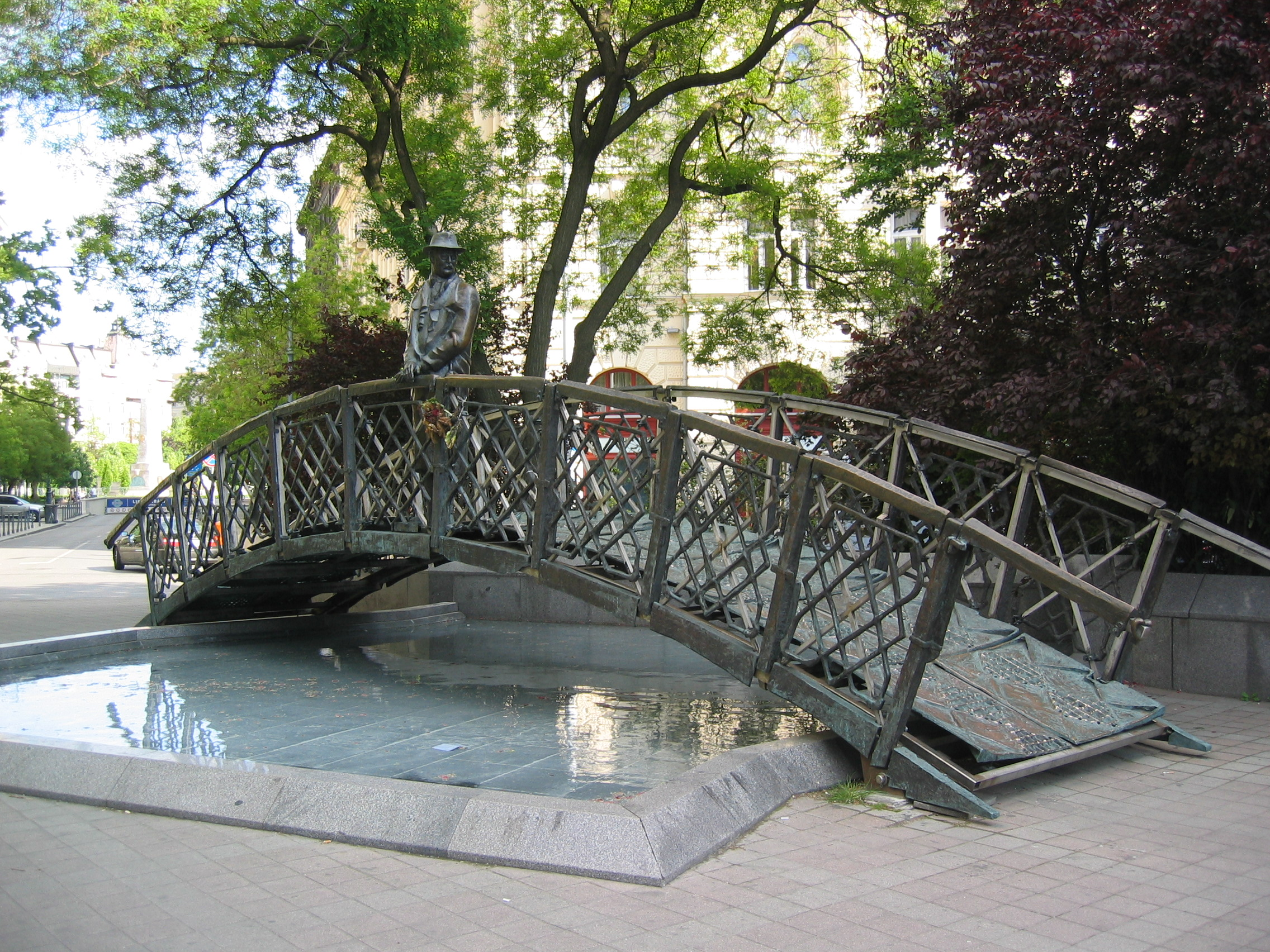 Imre Nagy, statue at Vértanúk tere (Martyrs' square), Budapest.